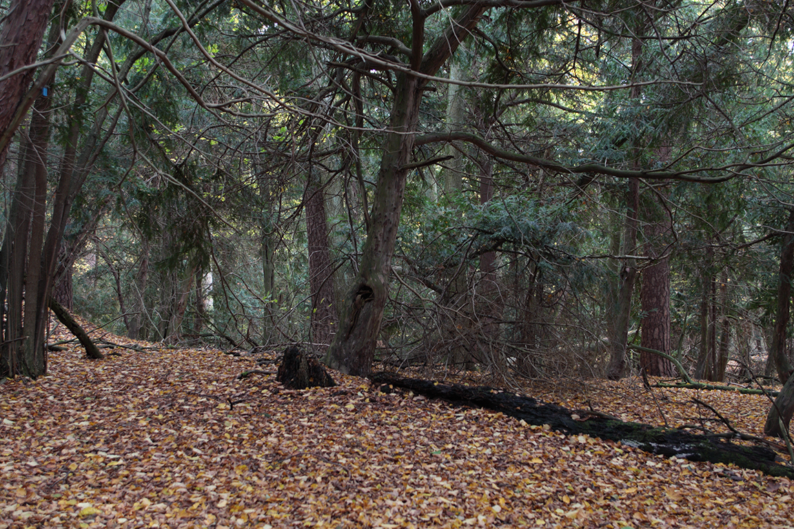 Taxus baccata (European Yew), Poland - Nature reserve "Cisy Staropolskie"